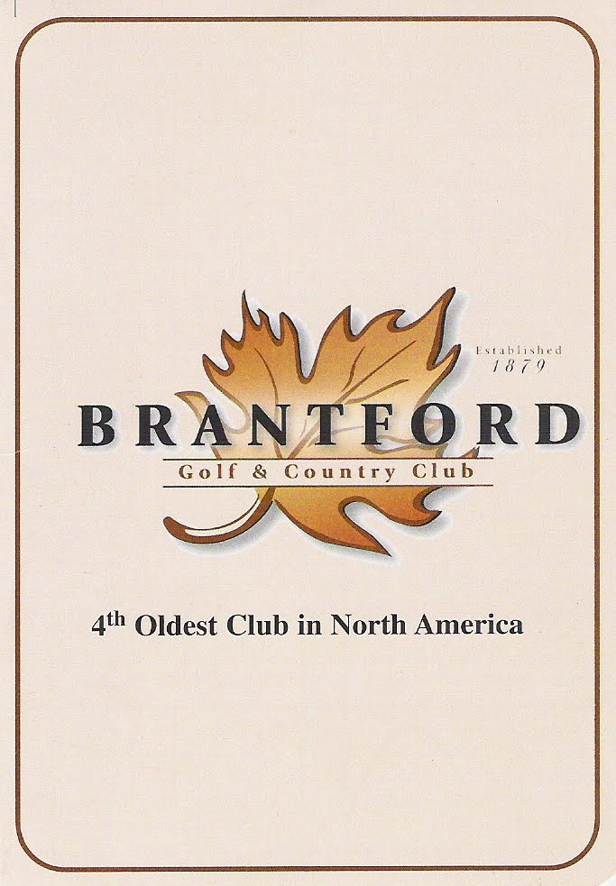 Scanned front page of score card from brantford golf and country club scorecard